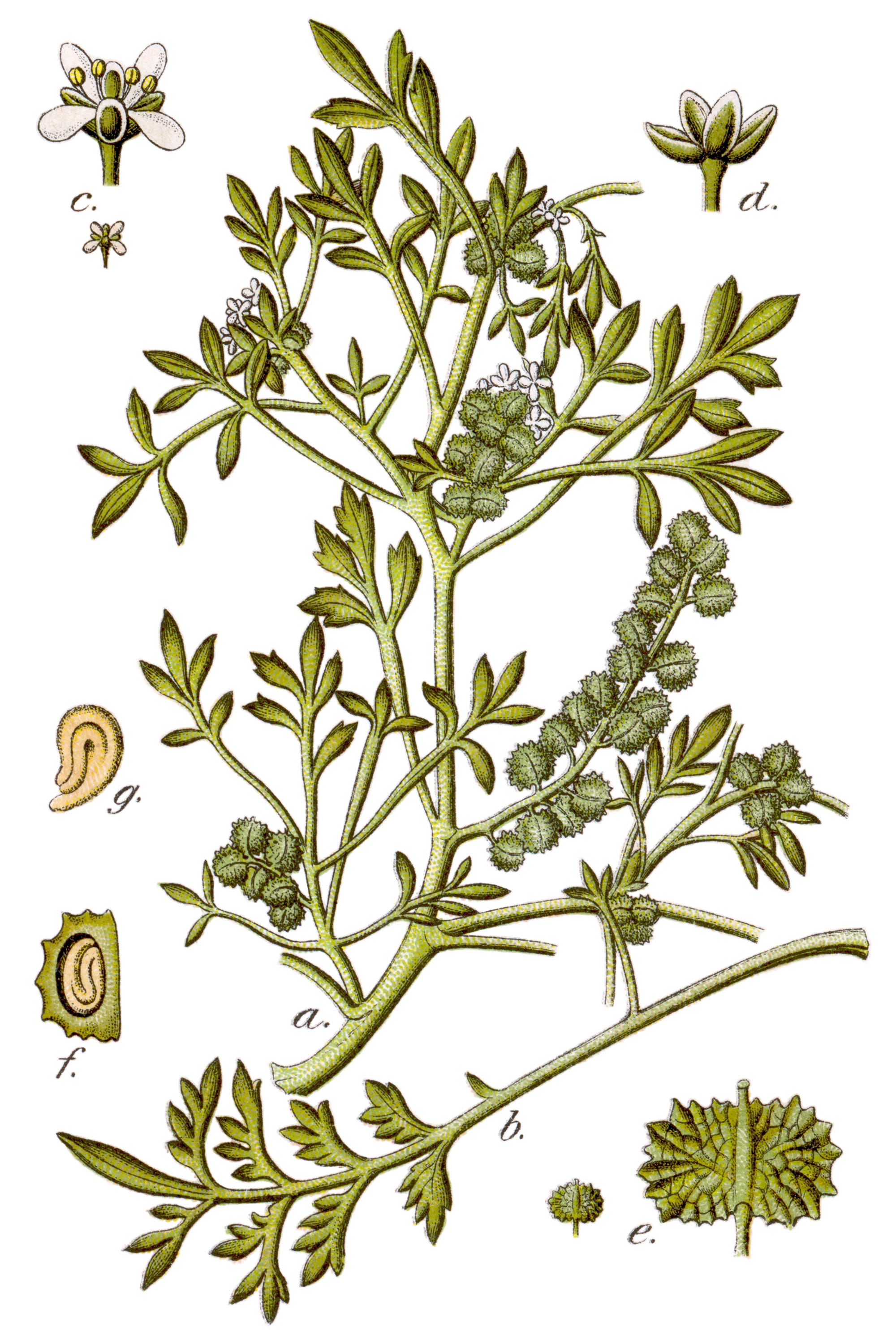 Lepidium coronopus (L.) Al-Shehbaz, Novon 14:156. 2004 - creeping wart cress, swinecress, etc. Original caption: "Tafel 29. Ruellius-Kresse, Crucifera ruellii."